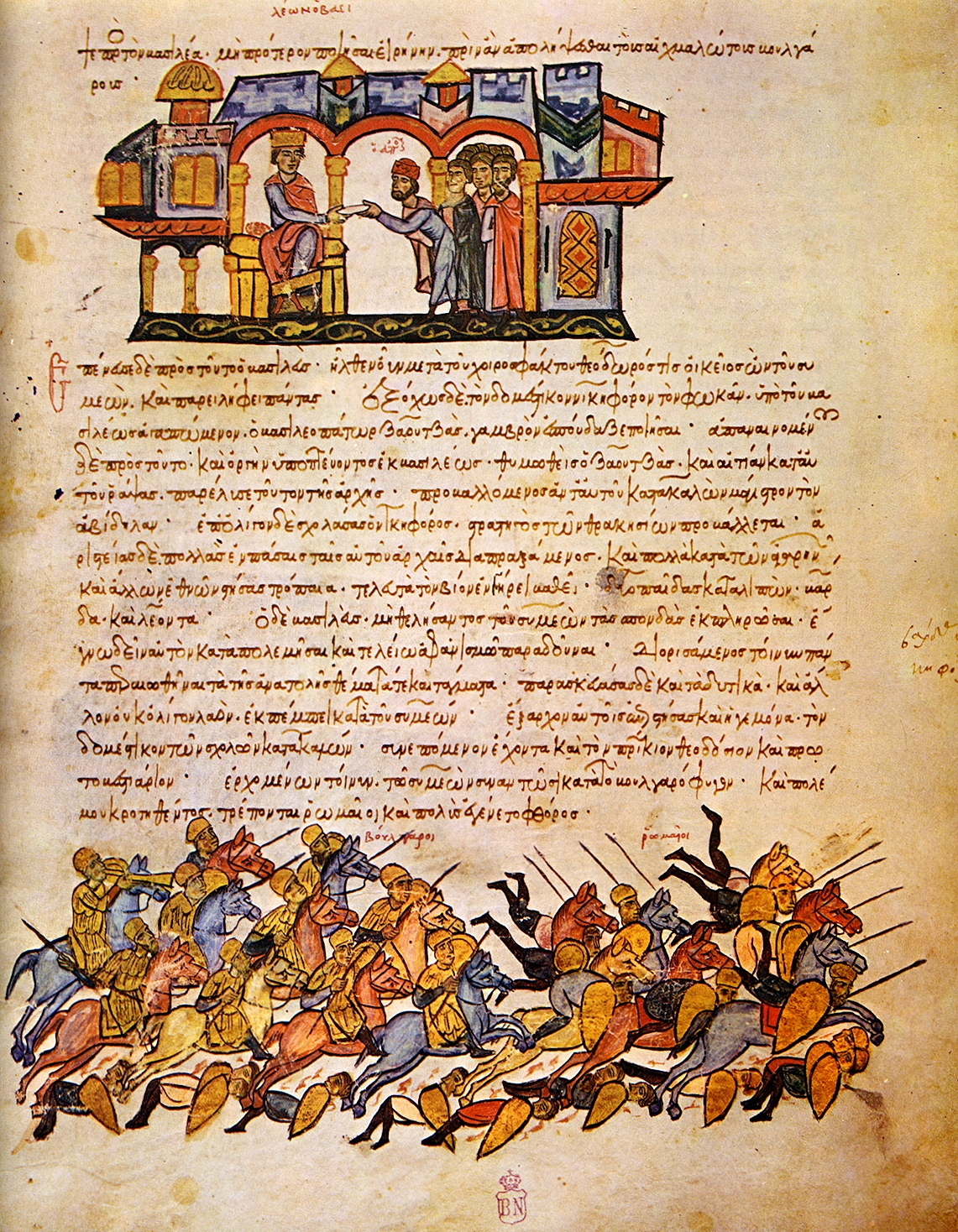 Leon VI with a Bulgarian delegation; The Bulgarians routing the Byzantine forces at Bulgarophygon. Madrid Skylitzes, fol. 109r